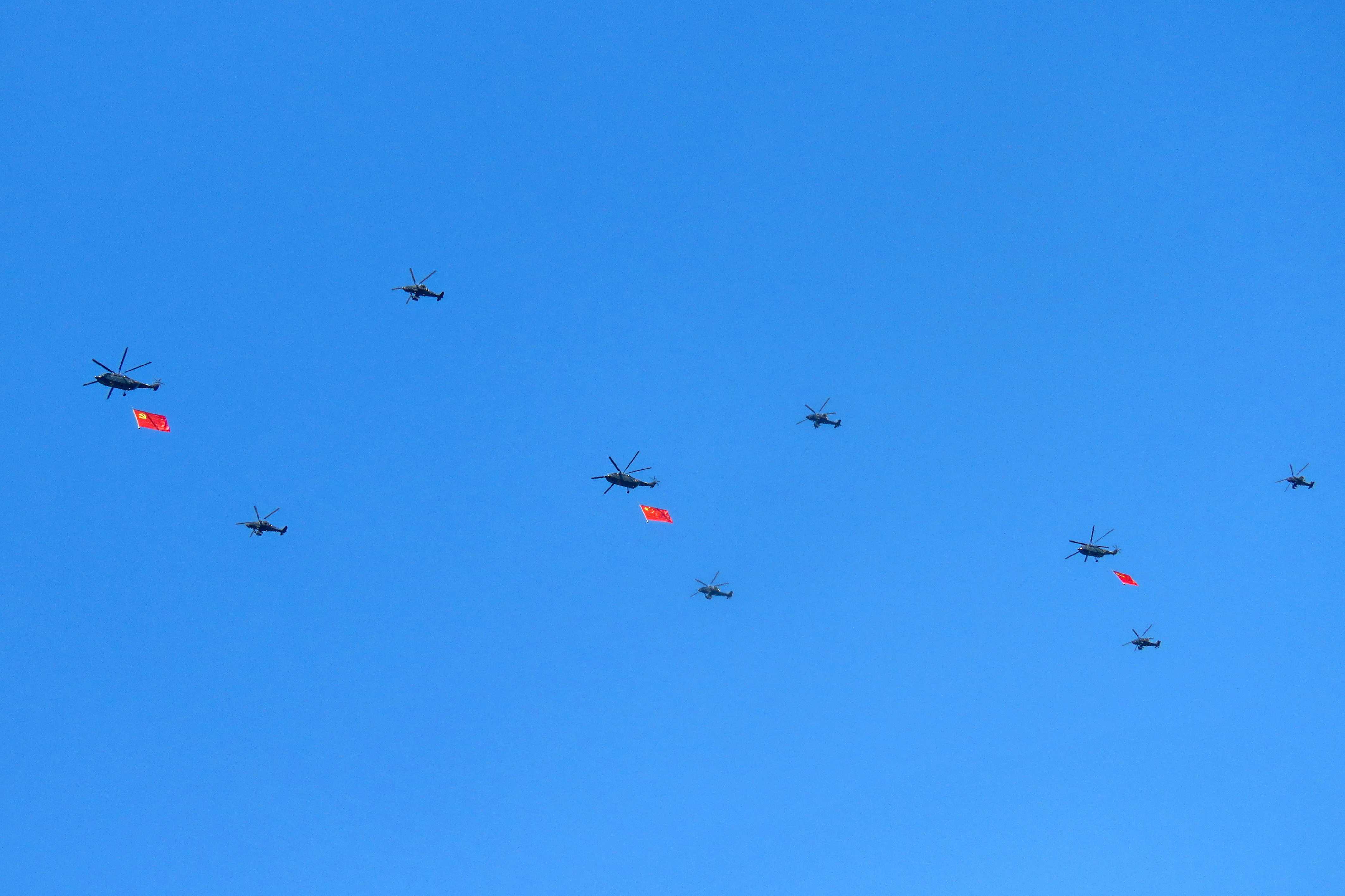 Military helicopters flying flags of the Communist Party of China, China, and the People's Liberation Army.